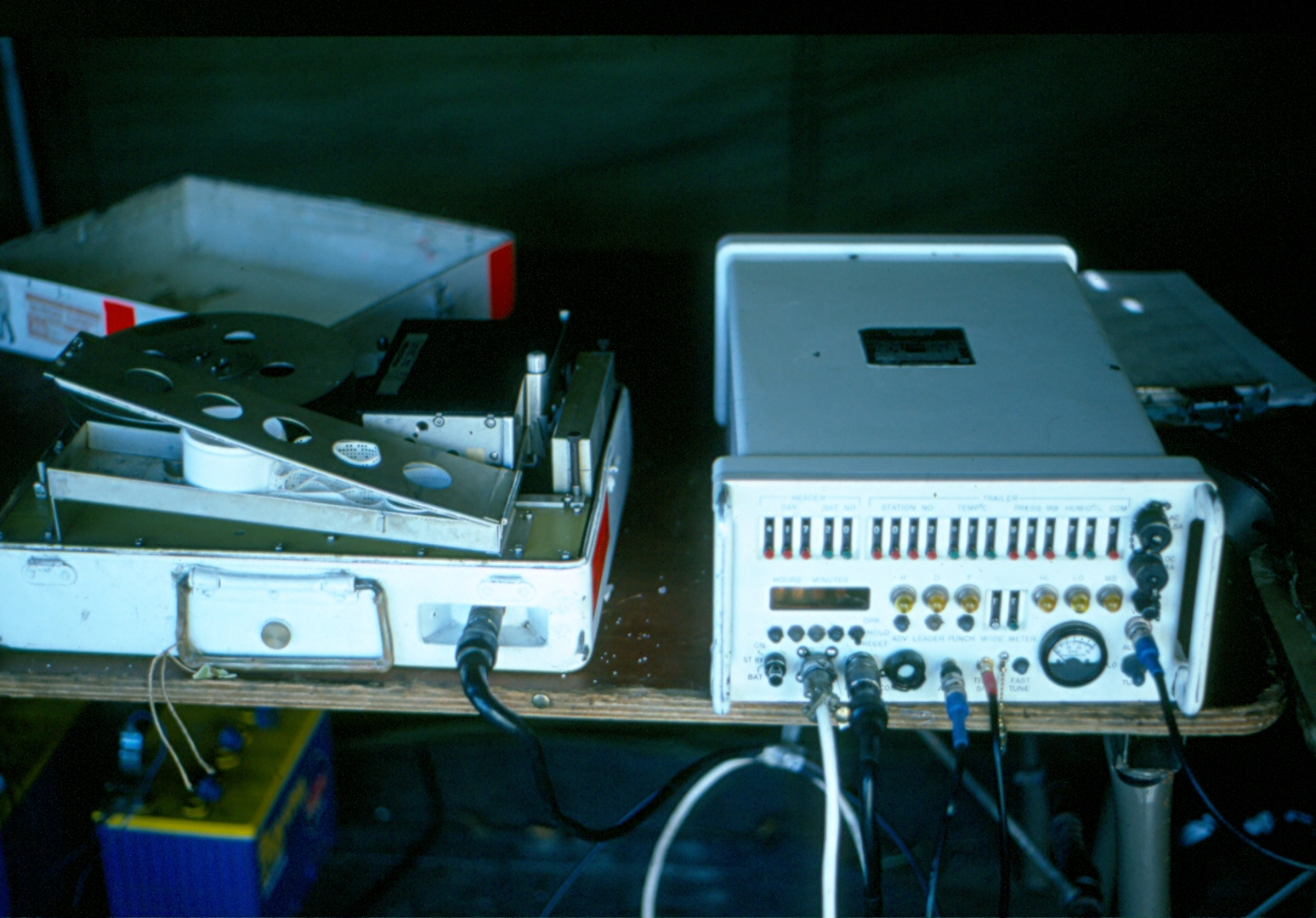 8FdSvy Sqn Geoceiver AN-PRR14